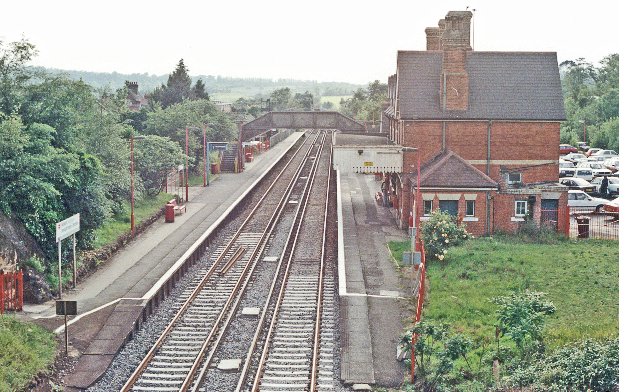 Borough Green & Wrotham Station, 1990. View westward, towards Otford, Swanley and London Victoria: ex-SE&CR Victoria - Bromley South - Swanley - Otford - Maidstone East - Ashford line. It is in Borough Green, but 1933-62 was called 'Wrotham & Borough Green'.